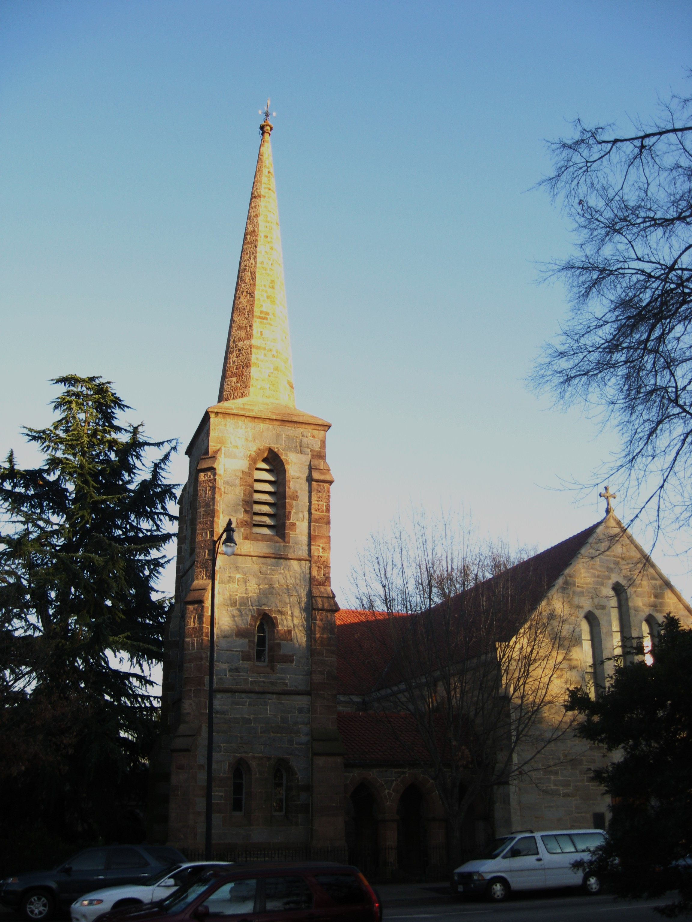 Christ Episcopal Church (Raleigh, North Carolina) taken by User:Willthacheerleader18